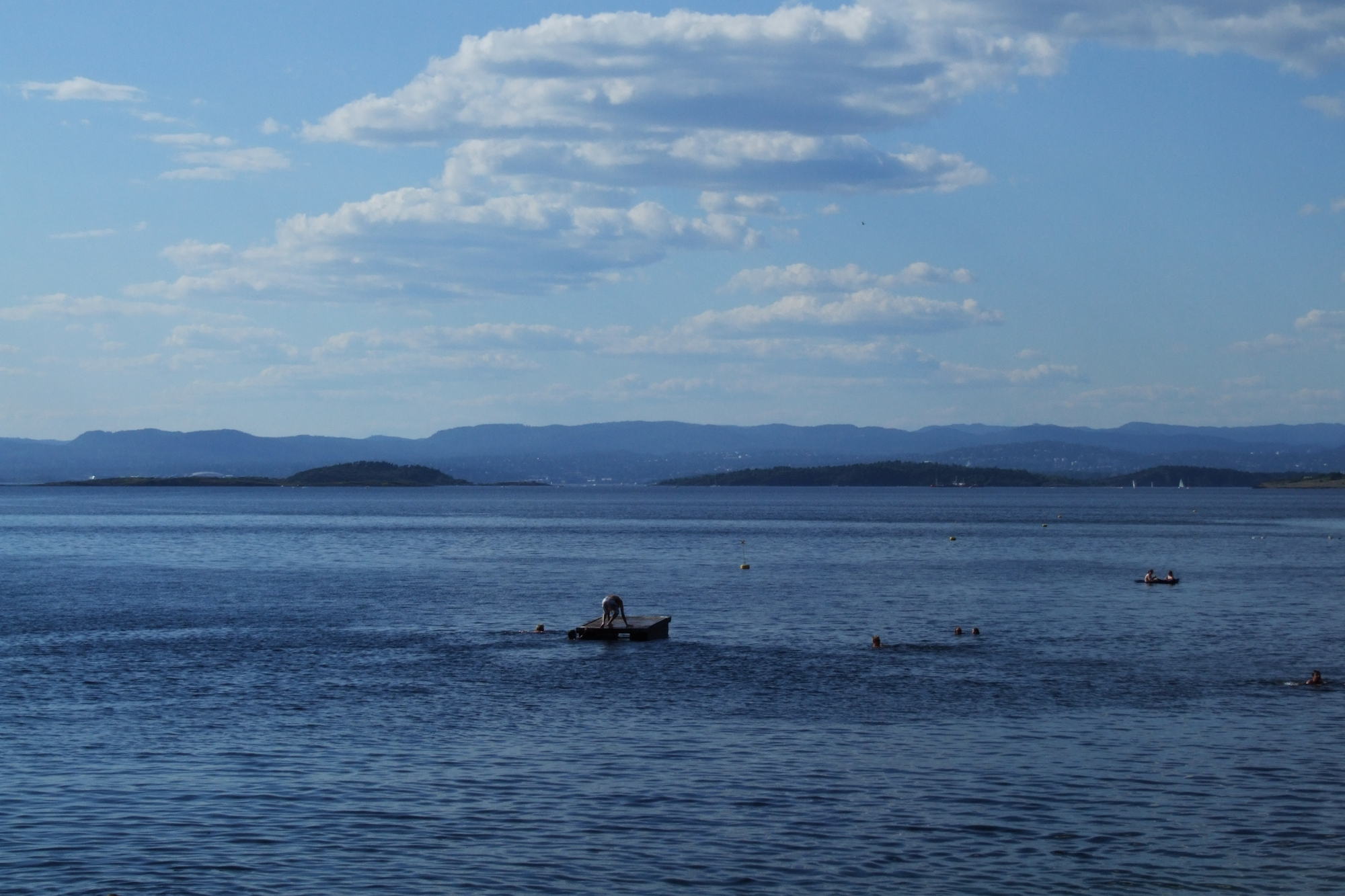 Oslofjord - view from beach in Oslo